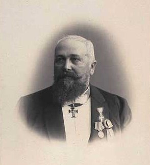 Hans Jacob Hvalsøe Just (1840-1912), Danish wholesaler